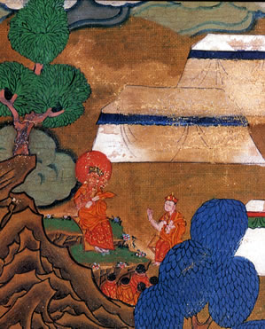 Excerpt from thangka of the vision of Chogyur Dechen Lingpa about the 17th Karmapa